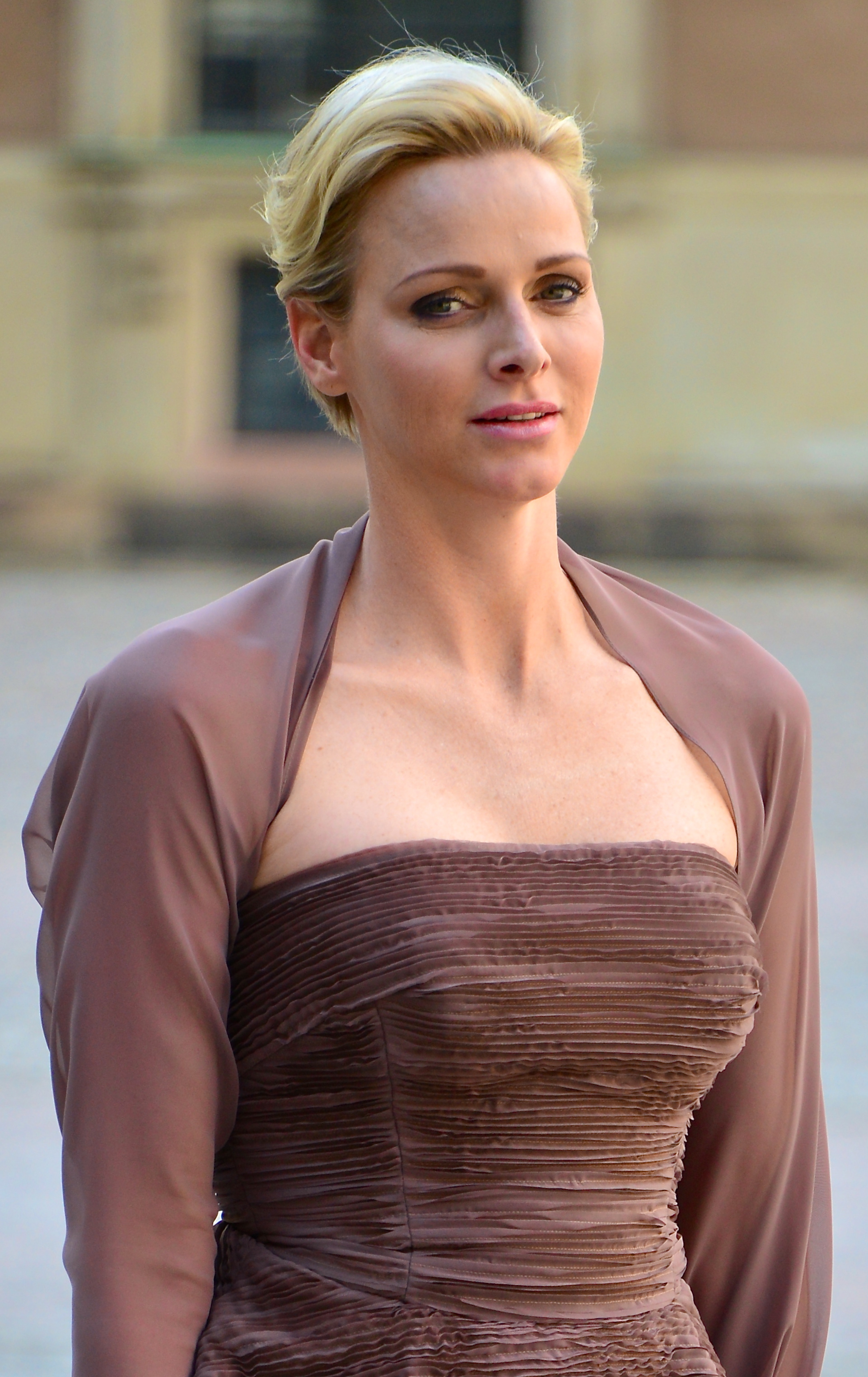 Charlene, Princess of Monaco on the way to the castle church at the Royal Palace in Stockholm before the wedding between Princess Madeleine and Christopher O'Neill June 8, 2013.